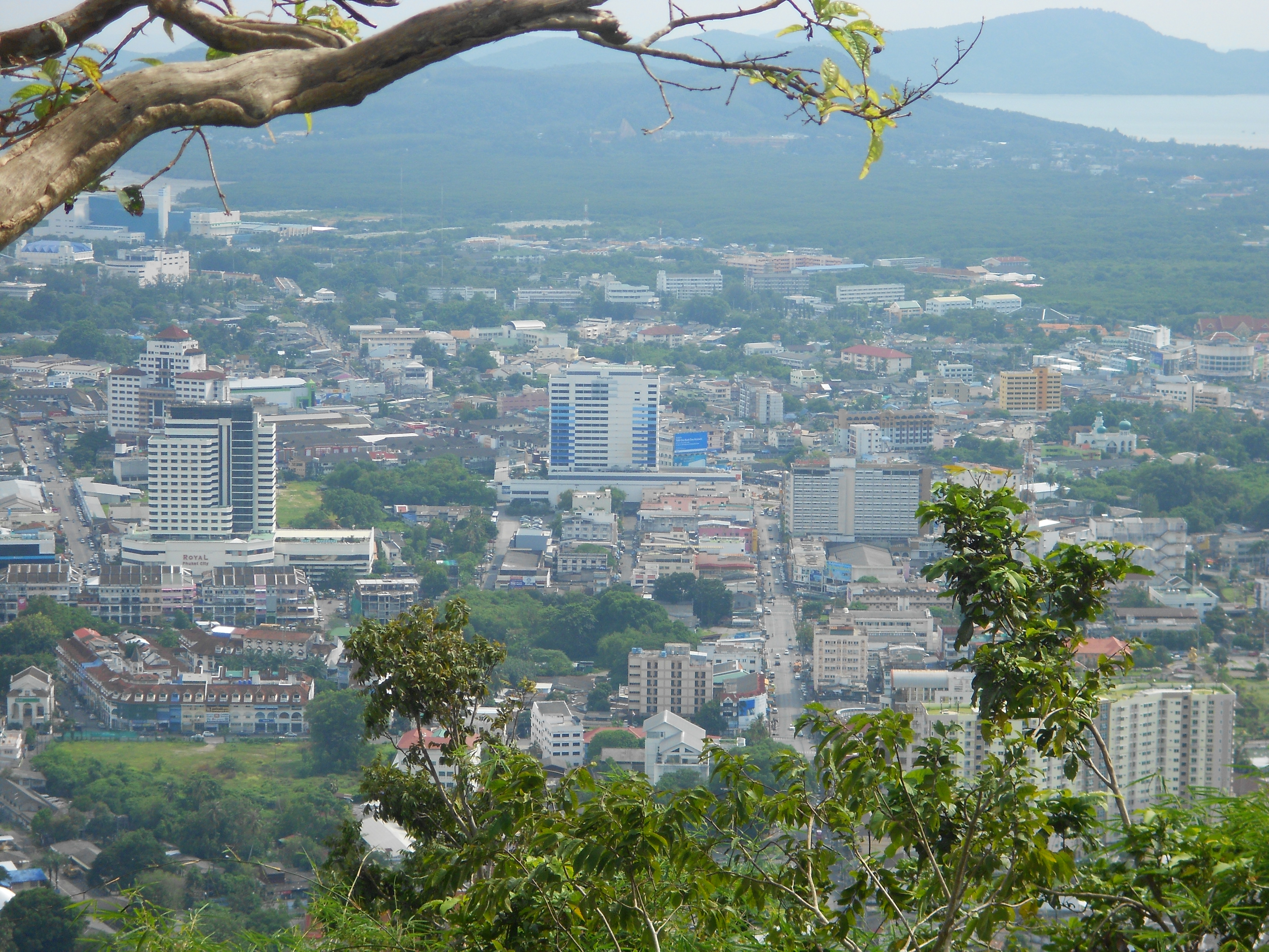 This view is on Toe Sae Mountain (เขาโต๊ะแซะ)